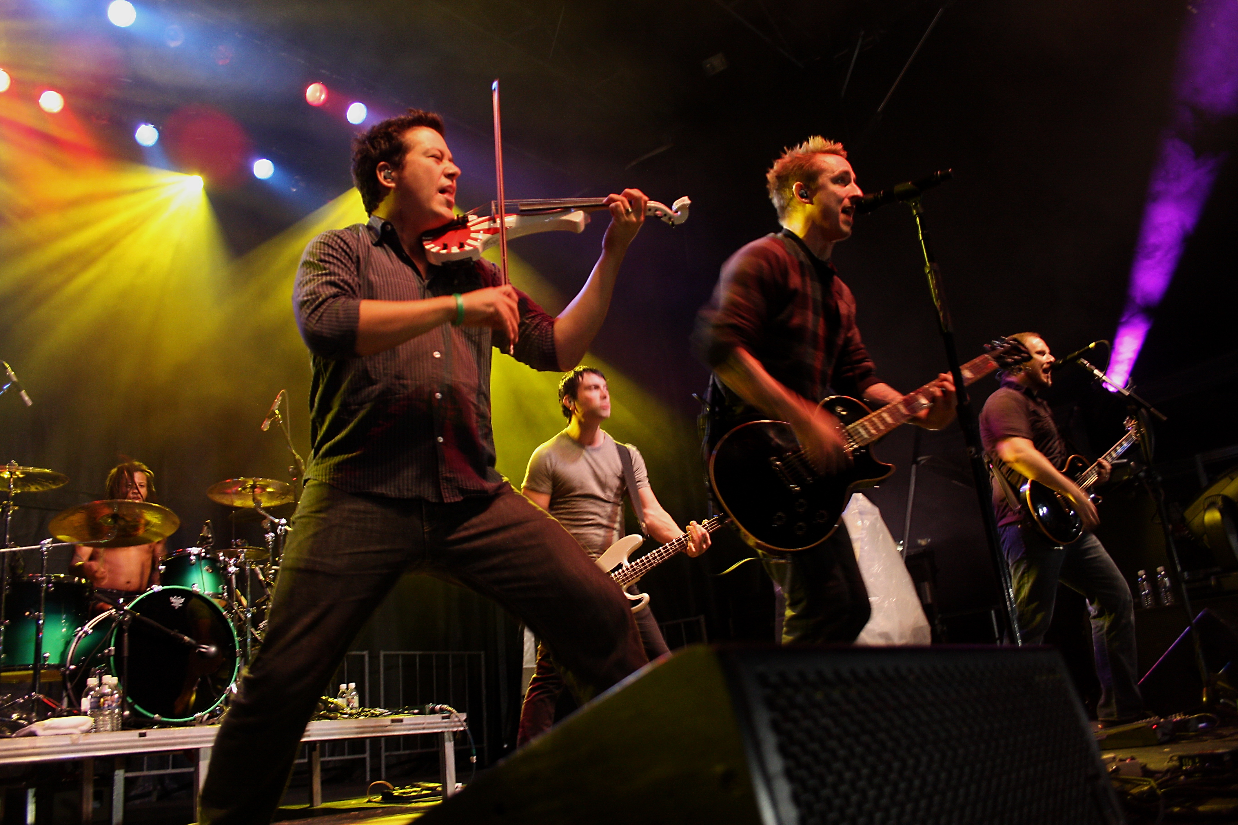 Yellowcard in Flagstaff AZ